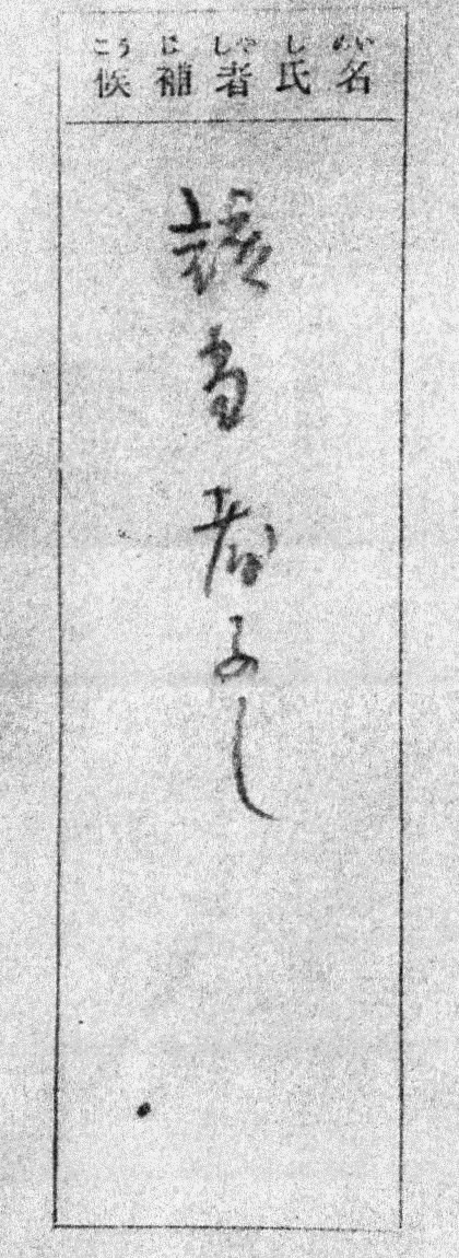 Faulty ballot paper of 1952 Japanese general election